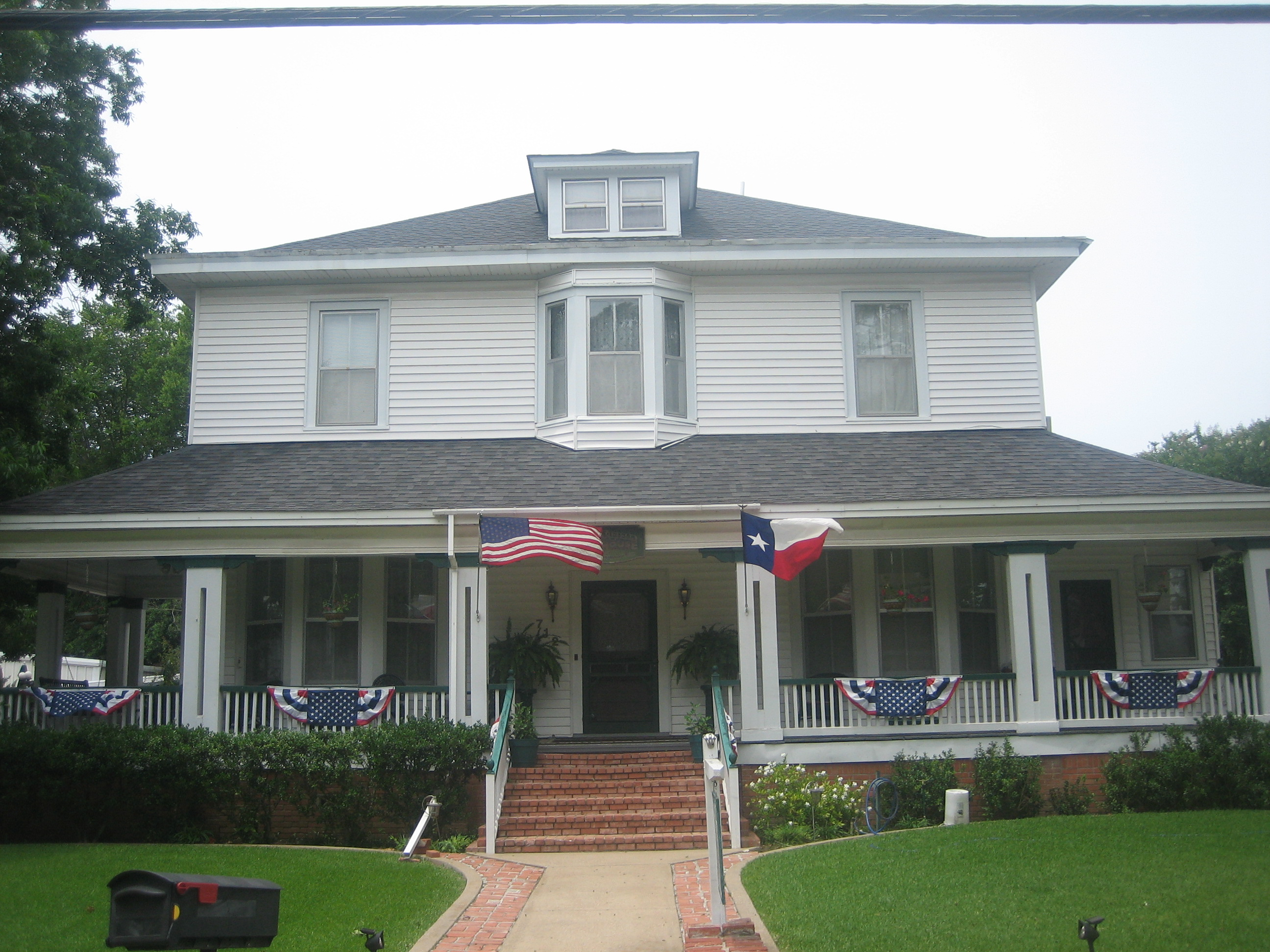 I took photo on May 27, 2009.Billy Hathorn (talk) 18:17, 31 May 2009 (UTC) This is not the Monroe-Crook House. This is the Warfield House, which is currently a bed and breakfast. The Monroe-Crook house is across the street from this home and farther towards the town square.